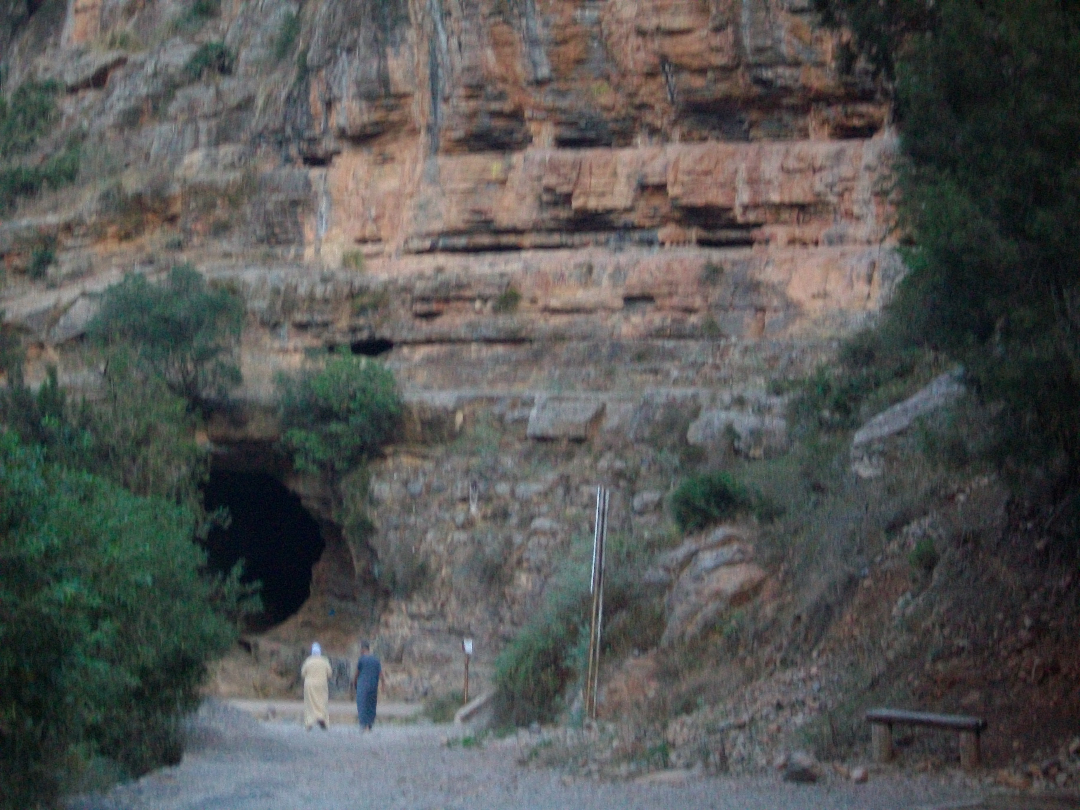 Cave of Zegzel